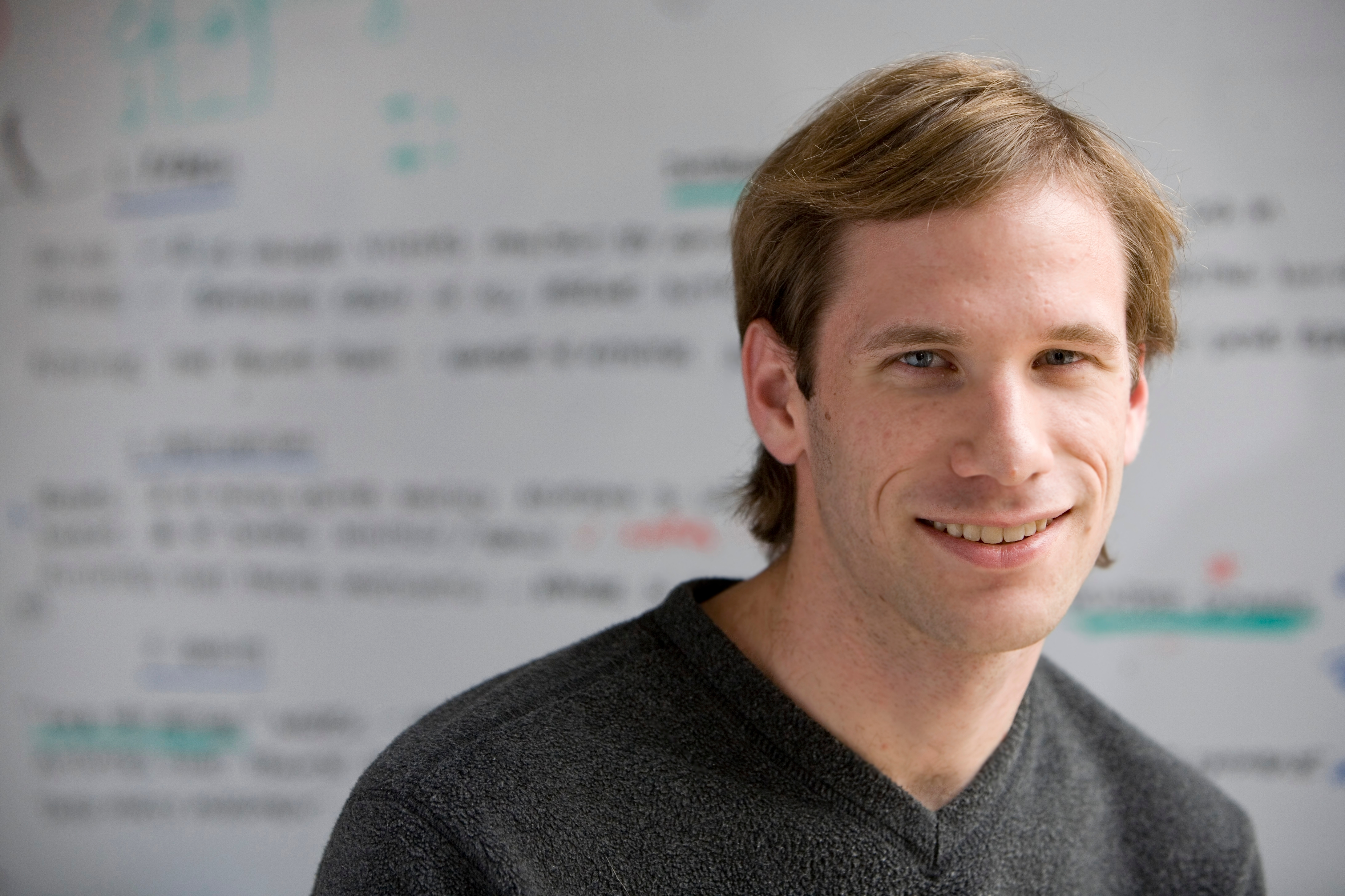 Staff portrait of Tim Starling